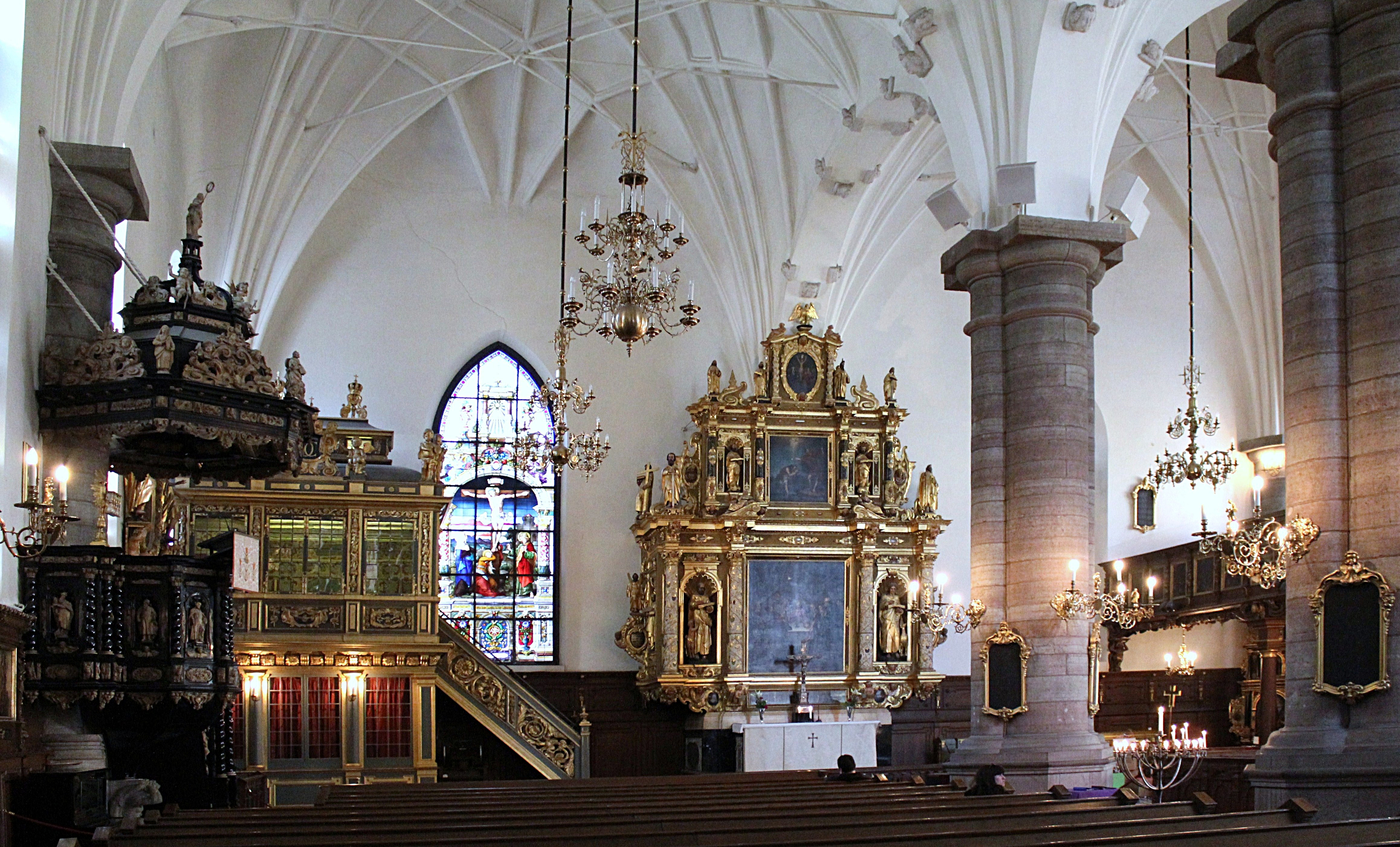 The altarpiece in the German Church, Svartmangatan 16, Old Town, Stockholm. The altar in Baroque is almost 10 meters high and was created by Markus Hebel (died 1664) from Holstein in Germany in the mid-17th century. The outhouse, which has a manor roof, has been designed by Nicodemus Tessin the Elder. Originally, the stand, which is crowned by Karl XI's monogram, floated freely on pillars. Later, the lower part has been glazed in and is now sacristy. In the upper part of the ceiling is a painting by David Klöcker Ehrenstrahl.